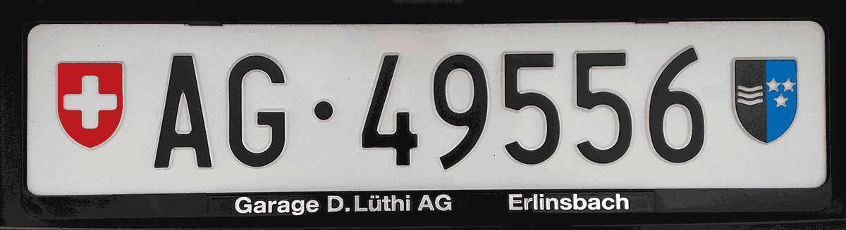 License plate of Aargau-Switzerland